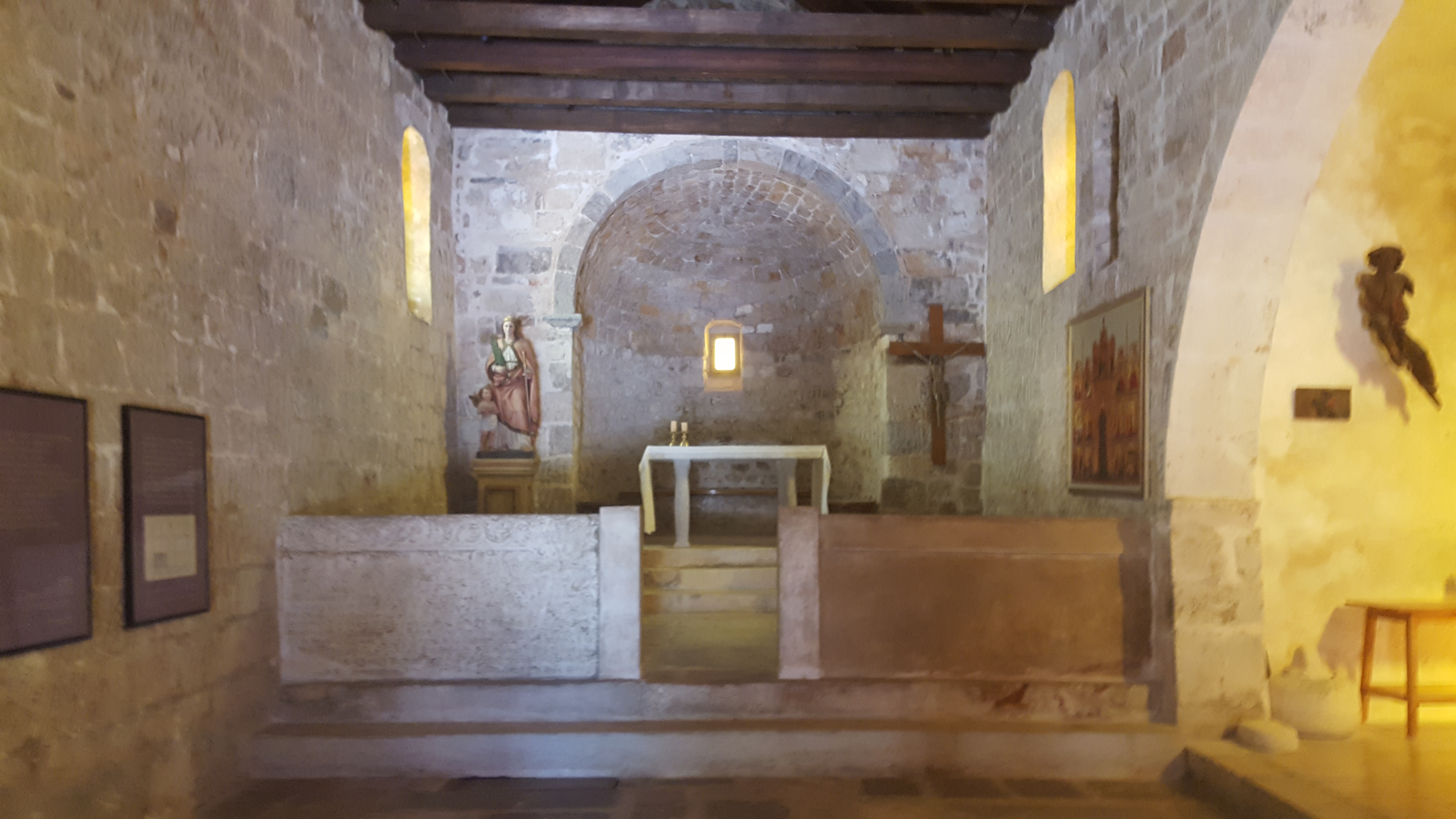 Location of the Baška tablet